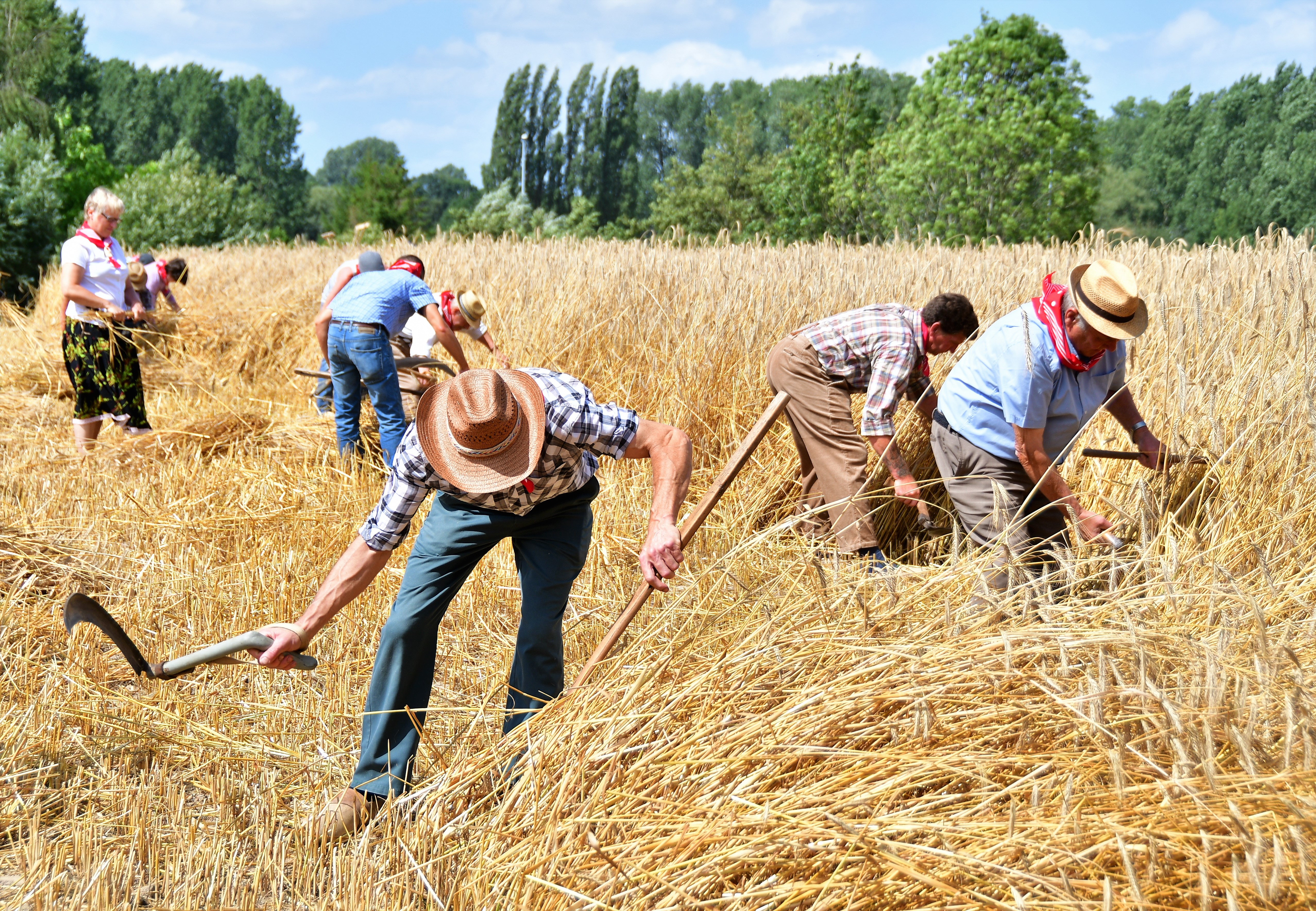 Real life acting: farmers harvesting the grain This photo of immaterial heritage has been taken in the Flemish Region